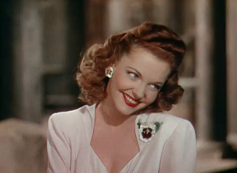 Vivian Blaine in Something for the Boys - trailer (cropped screenshot)